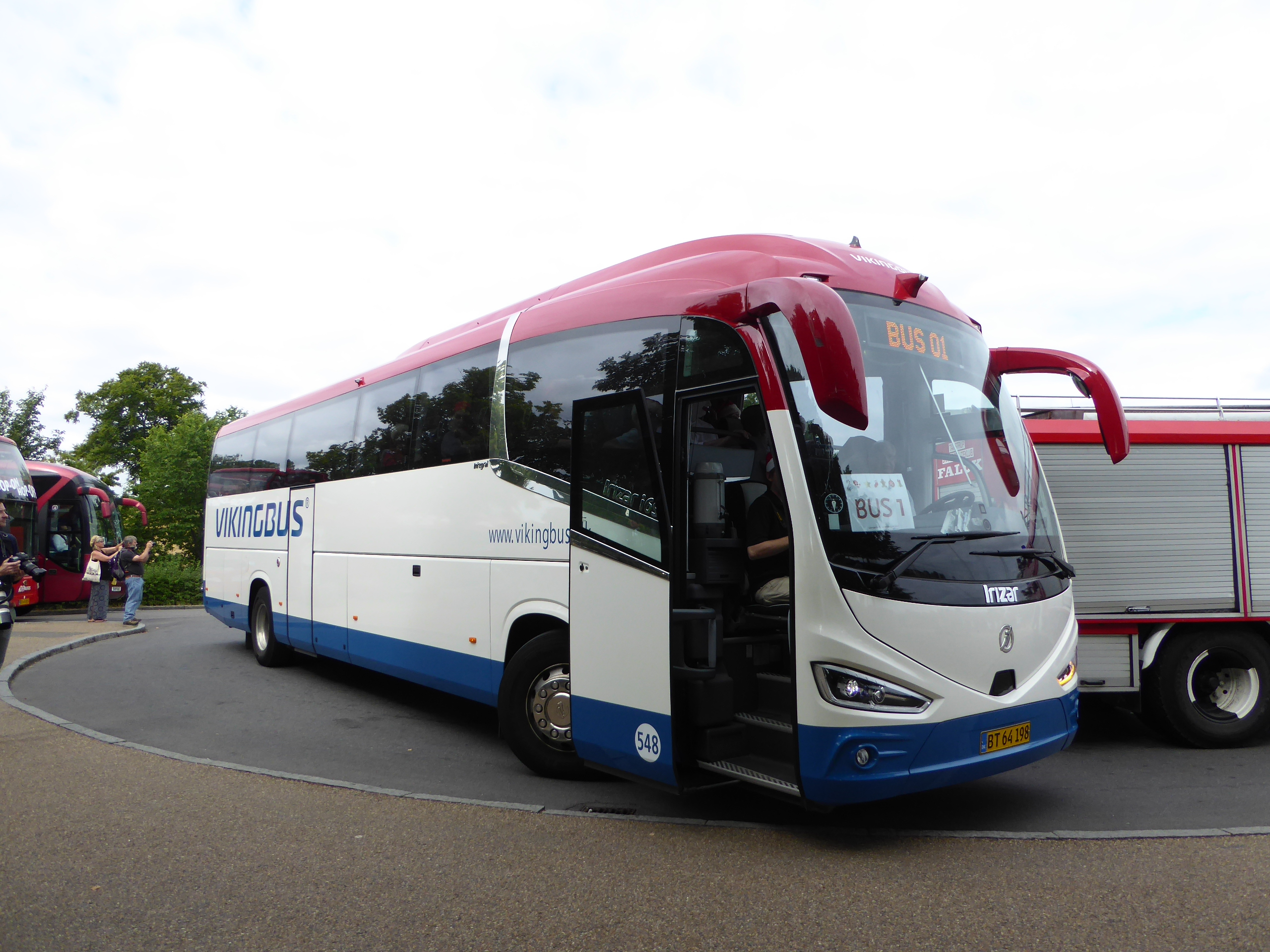 Julemændenes Verdenskongres (World Santa Claus Congress) 2018 at the traditional visit at Langelinie in Copenhagen. Most of the participants arrived in coaches.